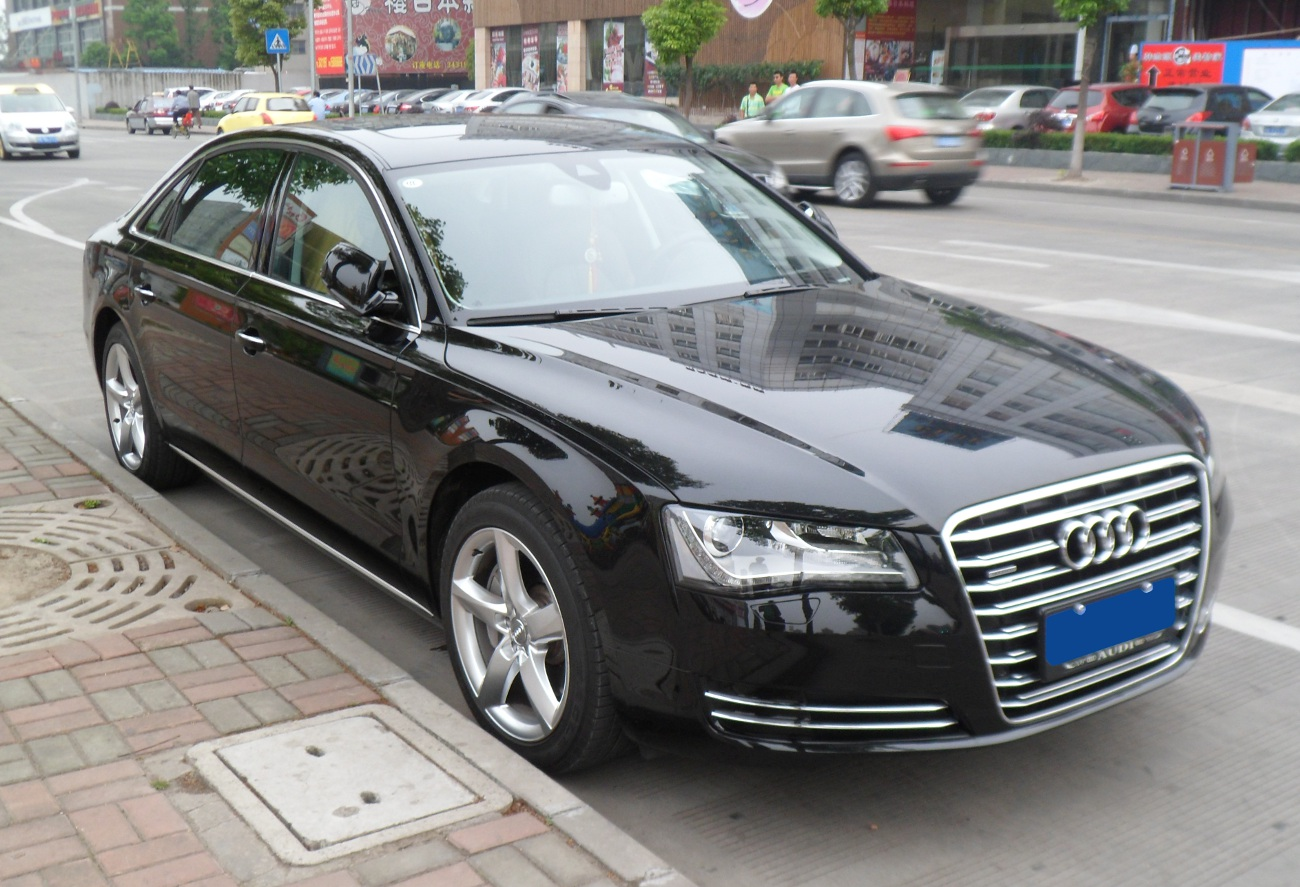 Audi A8L D4 photographed in Shanghai, China.